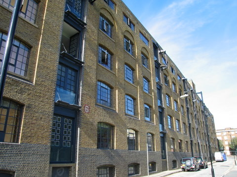 Taken by matthewleslie